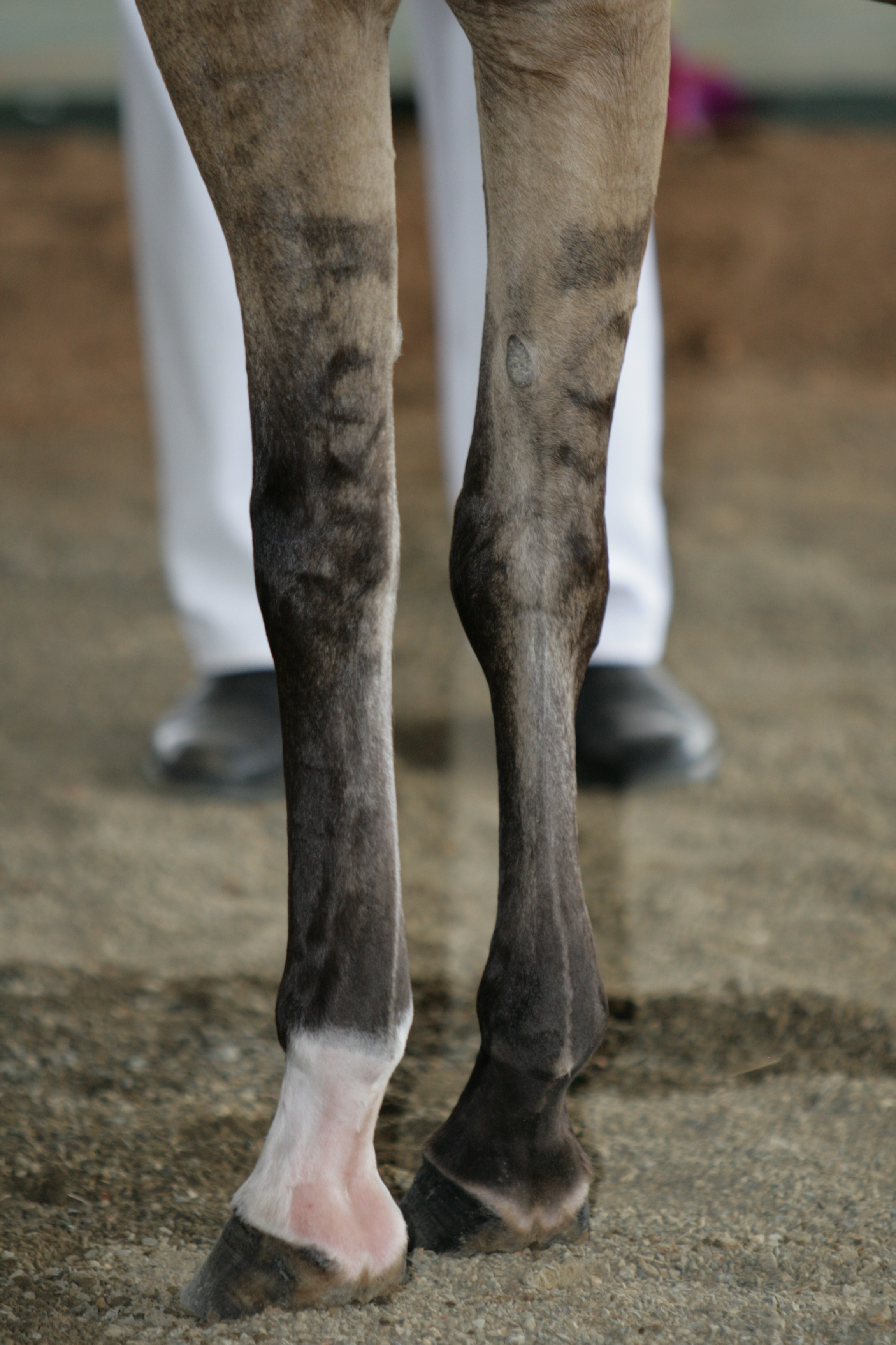 Primitive markings on the fore legs of a domestic horse